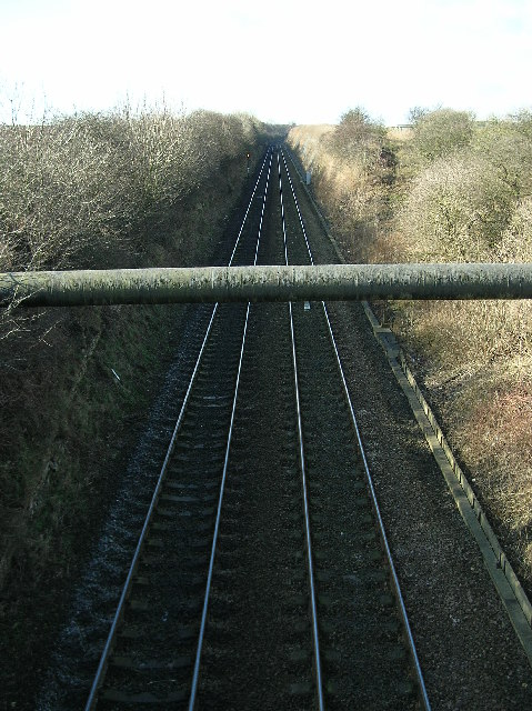 Micklefield - Garforth Railway from Ridge Bridge. Reverse view of the railway 125375, taken opposite Ridge Bridge Cottage on the A656. Taken looking west towards Garforth, with Stourton Grange on the right to the north-west. Not sure what the monstrously carbunculous pipe is!